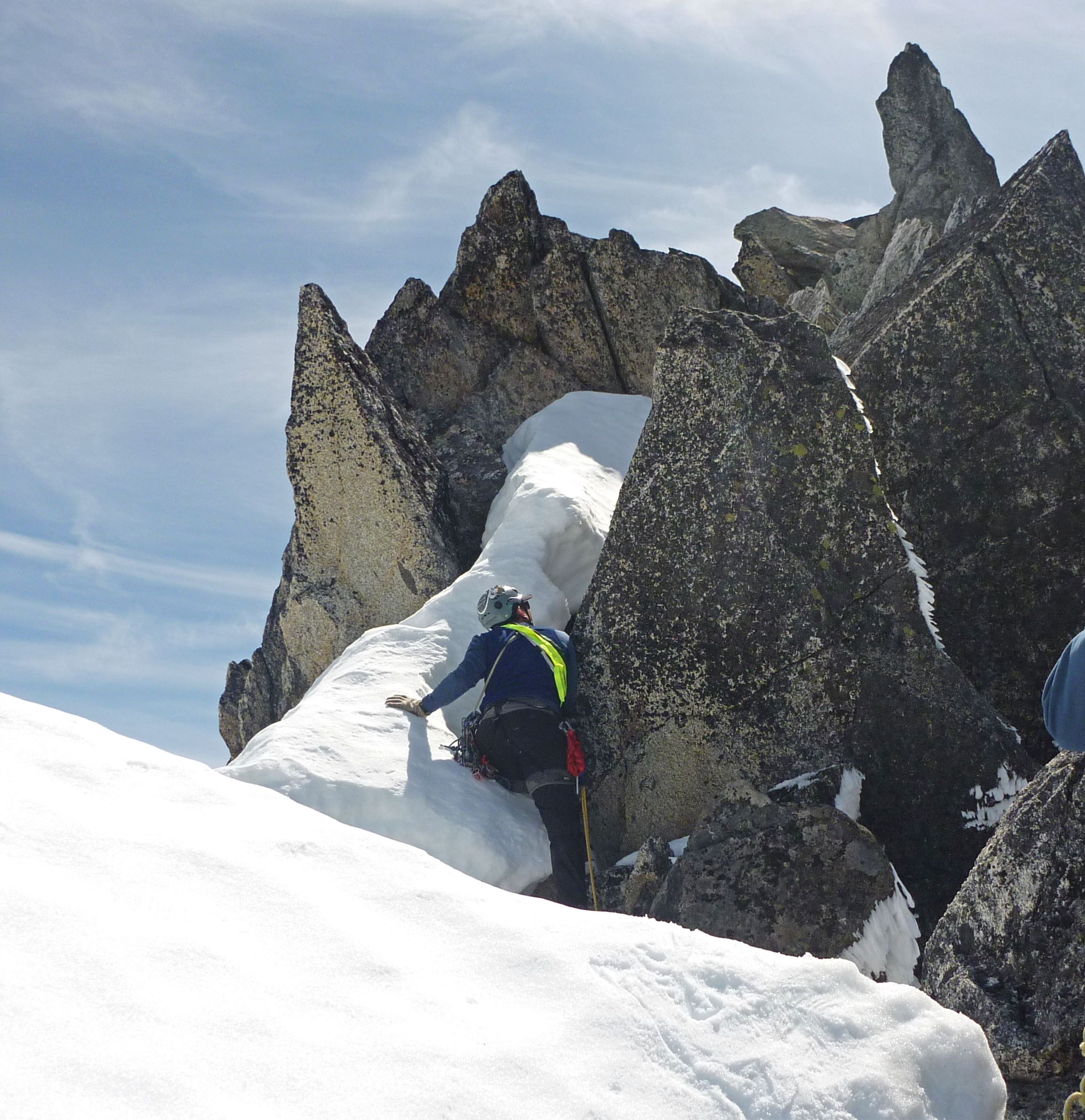 Summiting Dorado Needle in North Cascades National Park